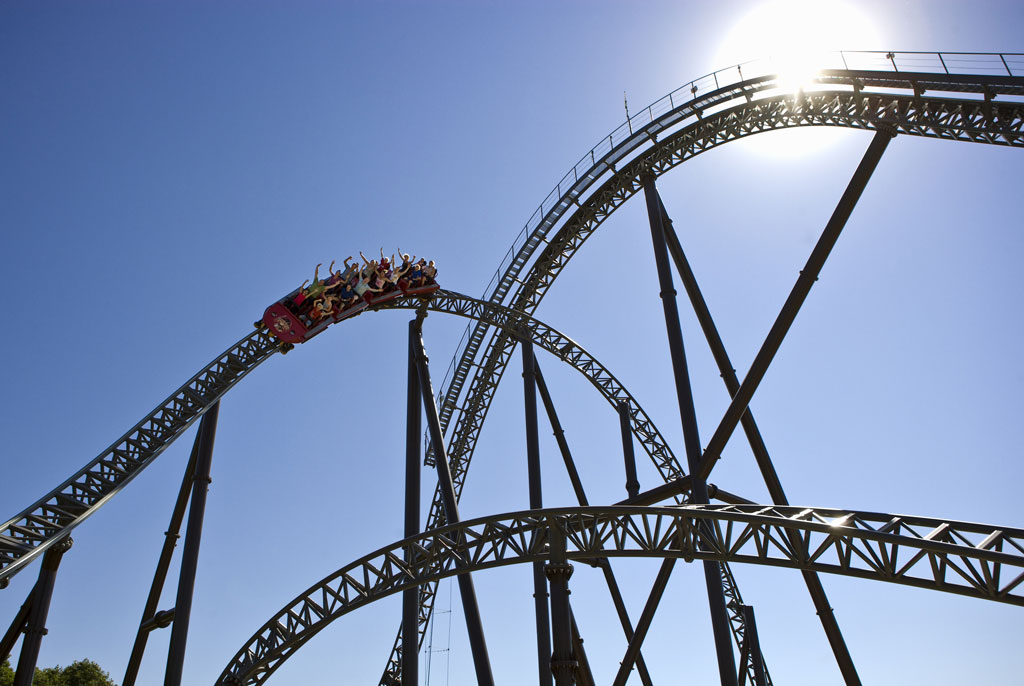 Piraten - Danmarks største og hurtigste rutschebane Djurs Sommerland